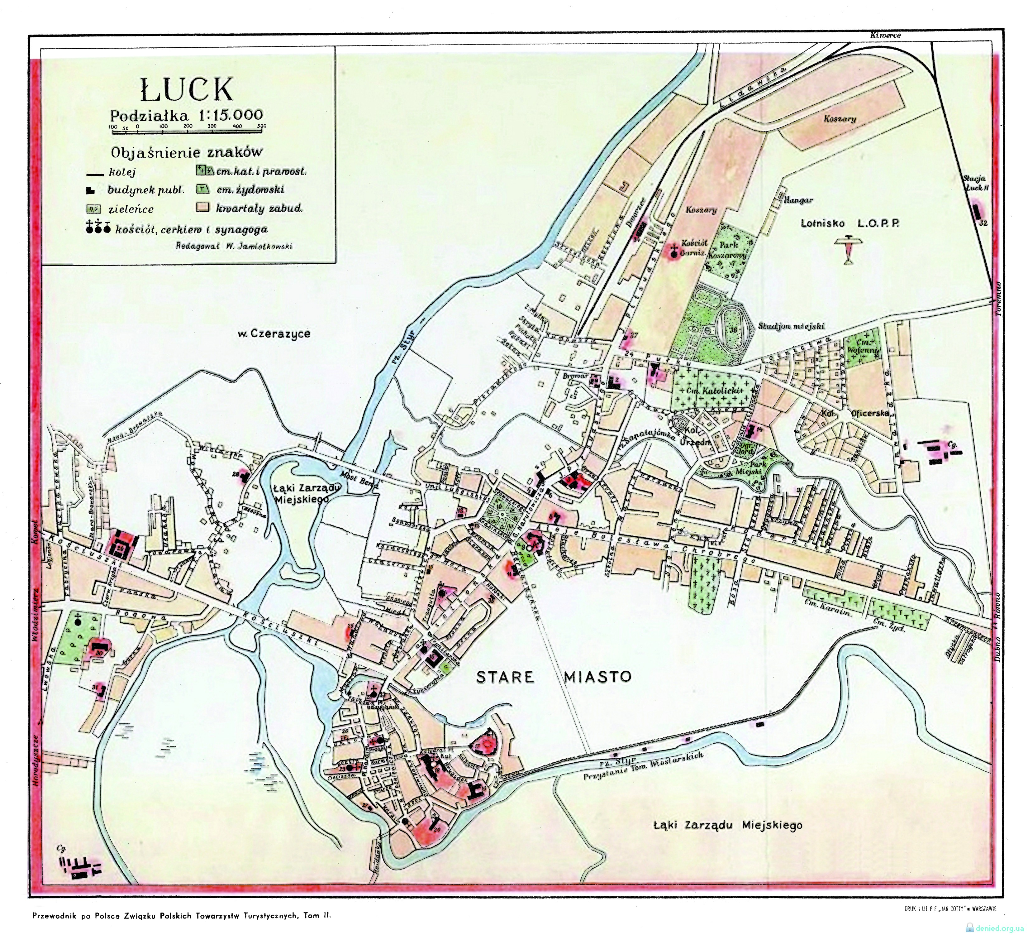 Map of Lutsk 1937 (color).